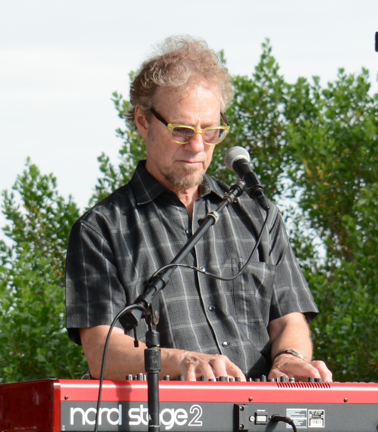 Randall Bramblett performing in Brunswick, Georgia, May 9, 2015